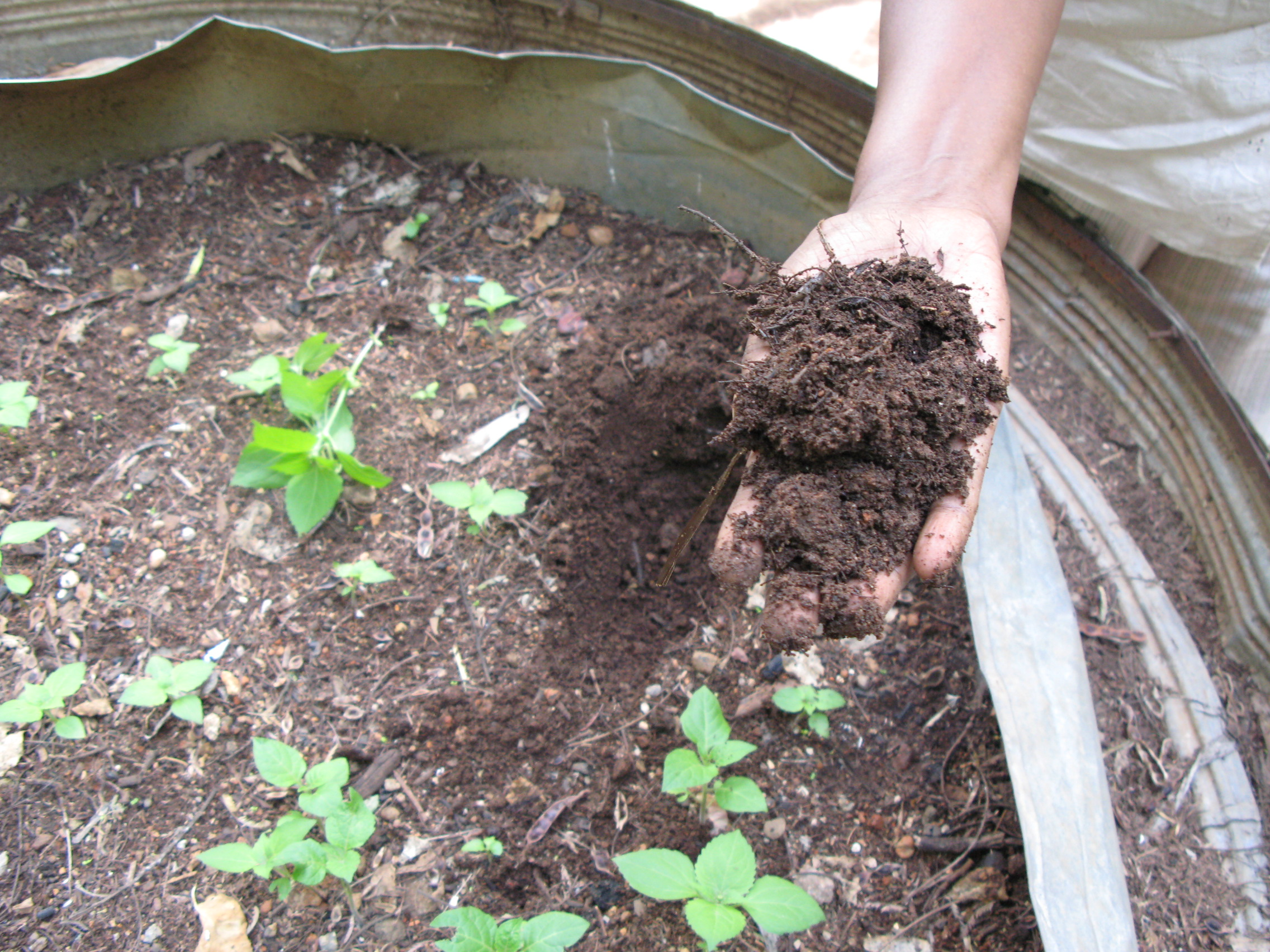 Composted faecal matter of UDDTs in Addis Ababa (Ethiopia).